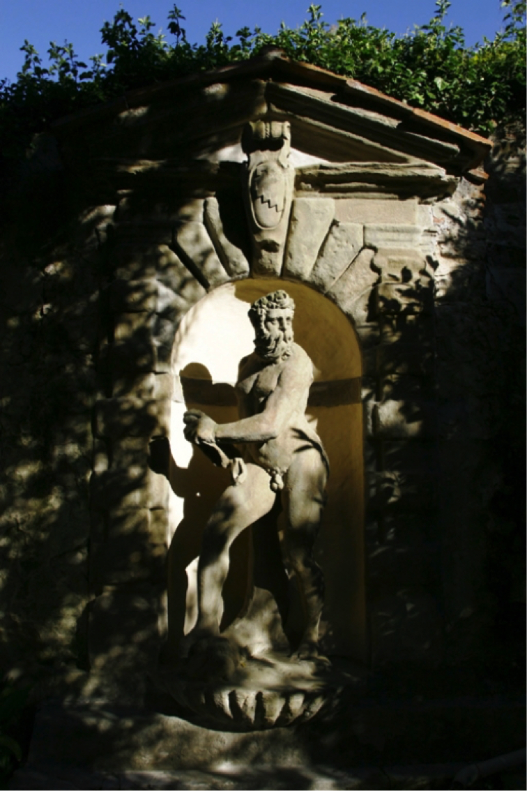 the statue of Oceano with the fountain in the Villa Il Rinuccino park